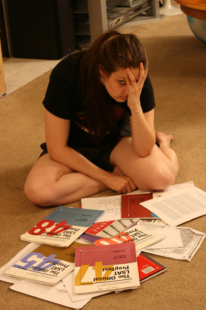 Samatha has been taking a weekly class.